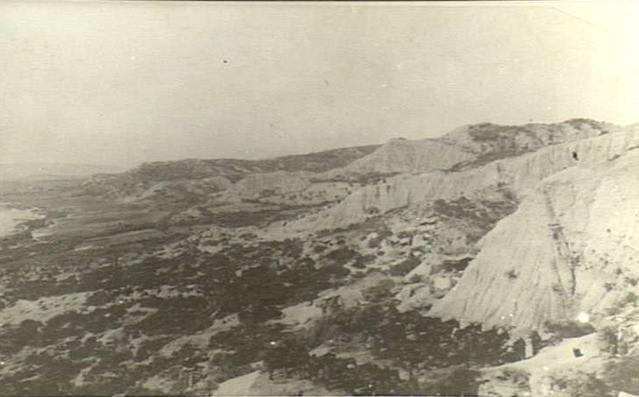 Gallipoli Peninsula, Turkey. June 1915. The locality where the New Zealanders had gone out and seized the extremities of the foothills. Isolated posts, Nos. 1 and 2 were established here. A third post was taken and lost.